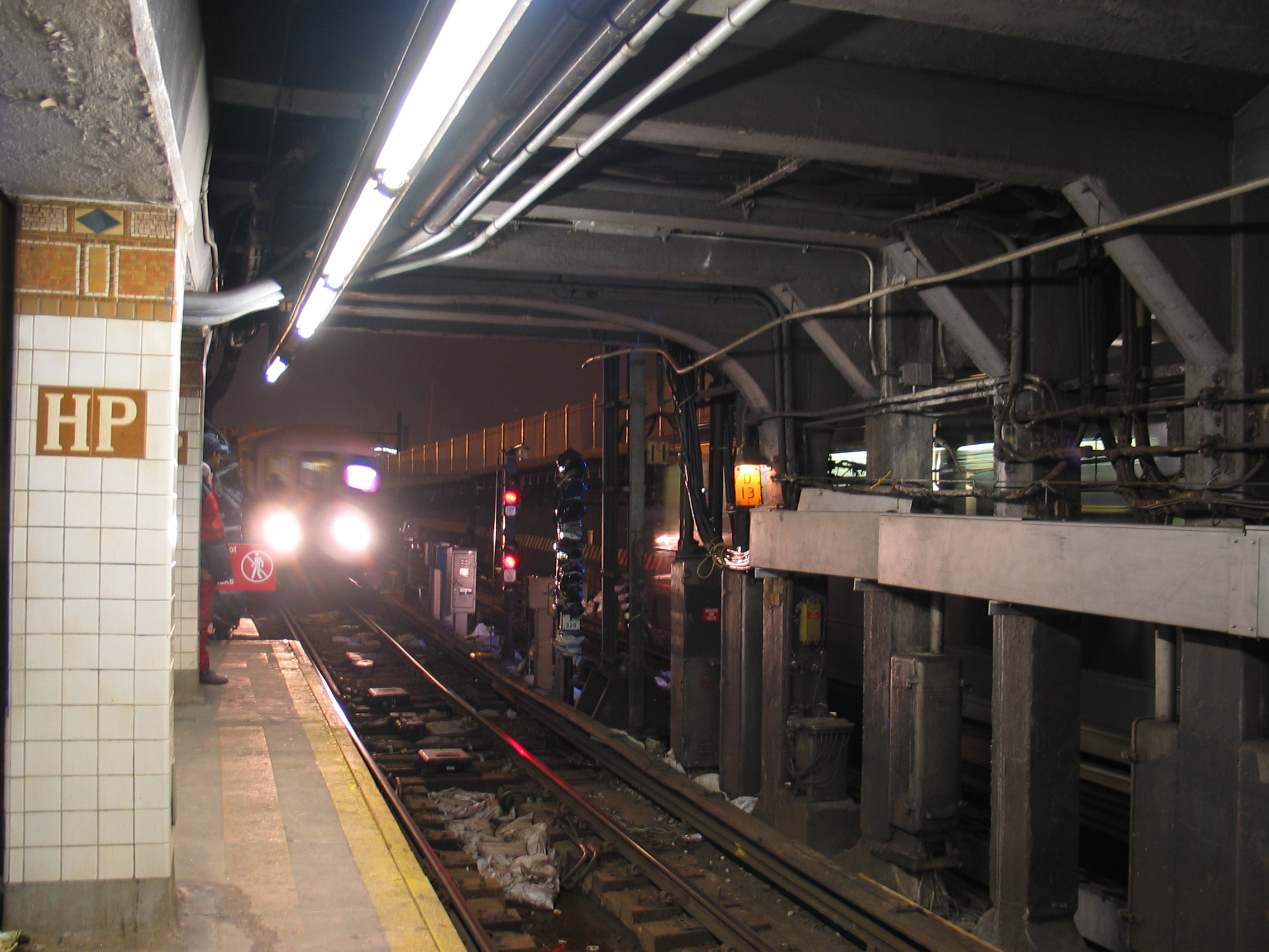 7 train entering Hunters point Avenue station. The station entrance is a transition between elevated tracks and tunnels. Image taken by Daniel Schwen on Dec 5th, 2005.